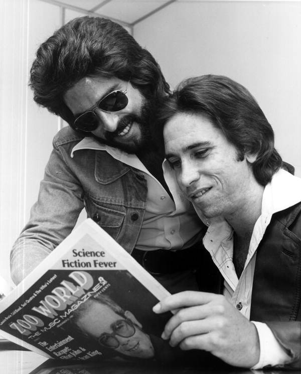 Kenny Loggins reading Zoo World music magazine with Jim Messina: Fort Lauderdale, Florida.